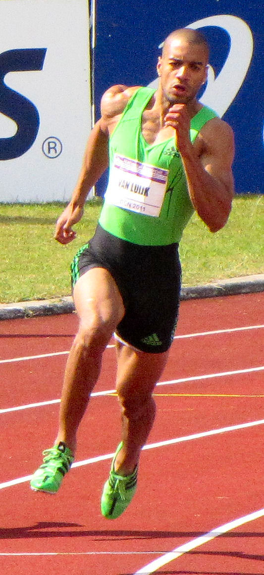 Patrick van Luijk at the Gouden Spike Meeting '11 in Leiden, The Netherlands